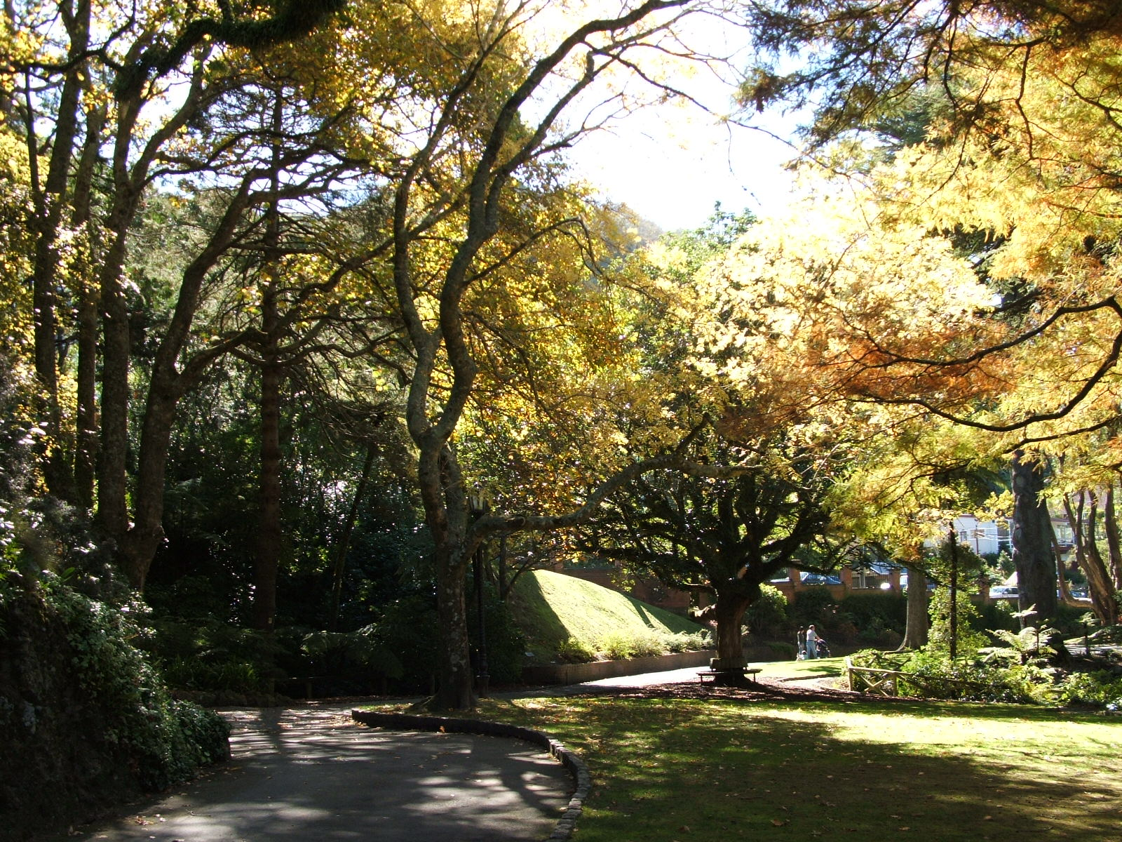 A path near the Duck Pond at Wellington Botanic Garden, Wellington, New Zealand. The author releases the picture into the public domain.